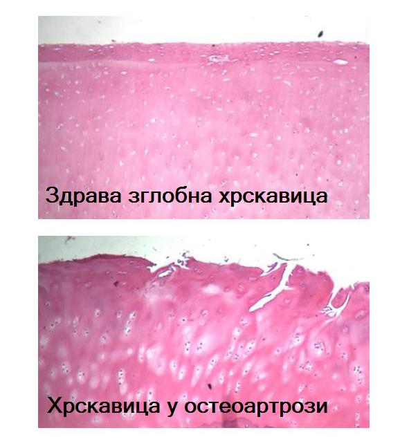 Histopathology of osteoarthrosisСрпски (ћирилица): Хистолошки приказ пресека кроз здраву зглобну хрскавицу и нагрижену хрскавицу у остеоартрози. др Милорад Димић. 6.2.2014.